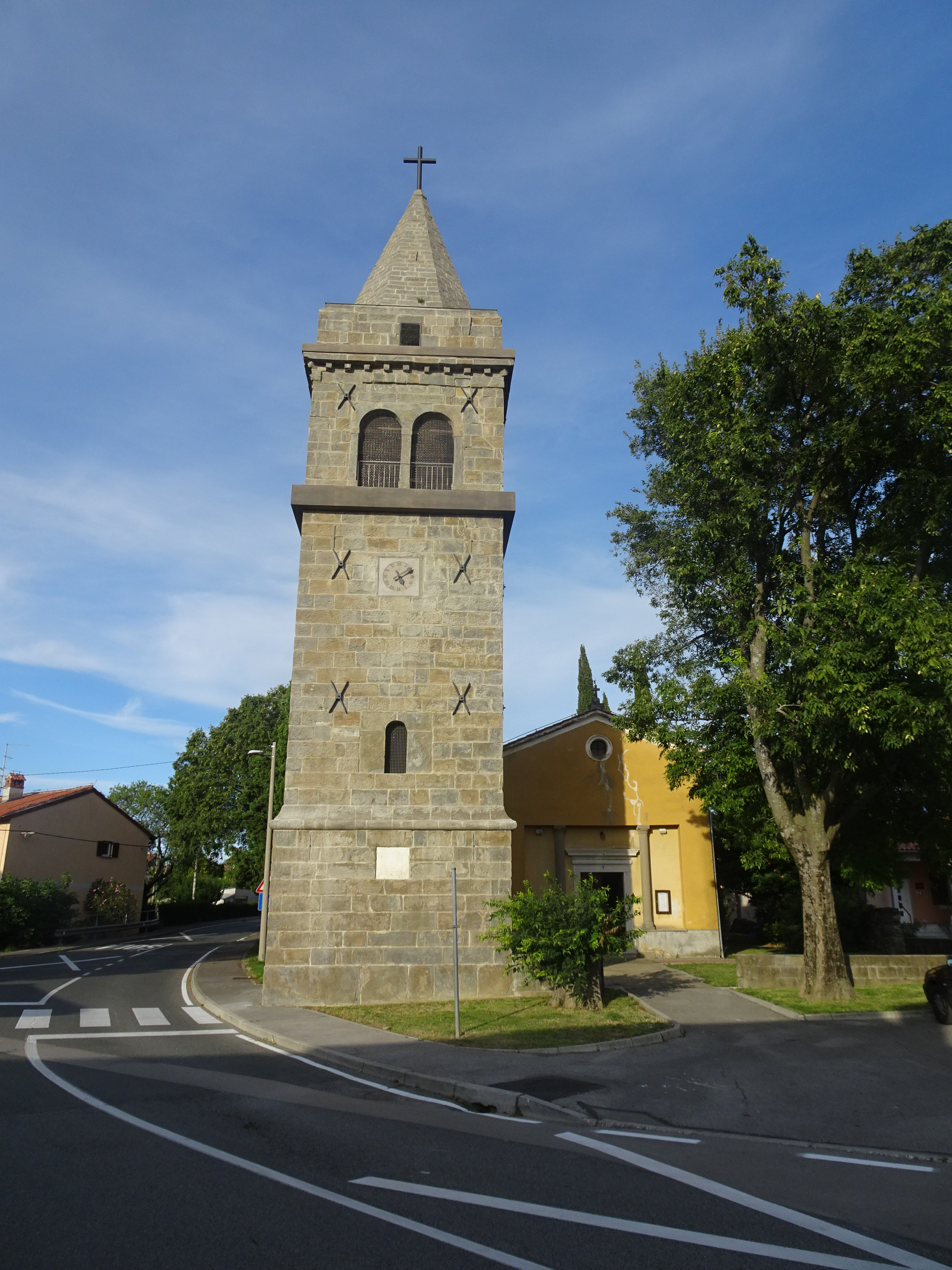 Holy Cross Church Marezige, Slovenia with separated belltower